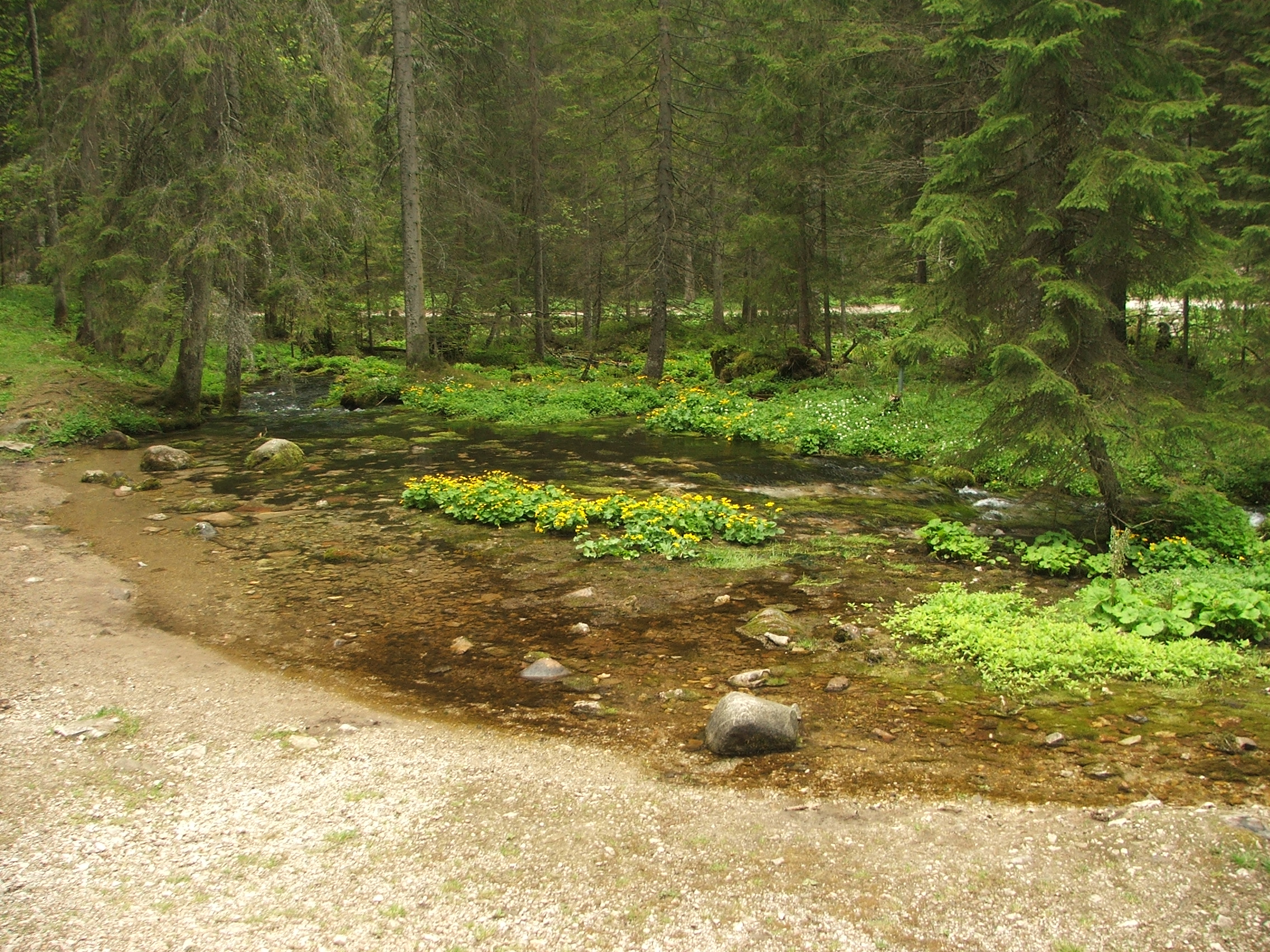 Lodowe Zrodlo, a spring in Western Tatras (Koscieliska Valley)